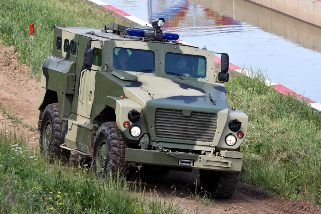 VPK-3924 Medved SPM-3 russian MRAP vehicle